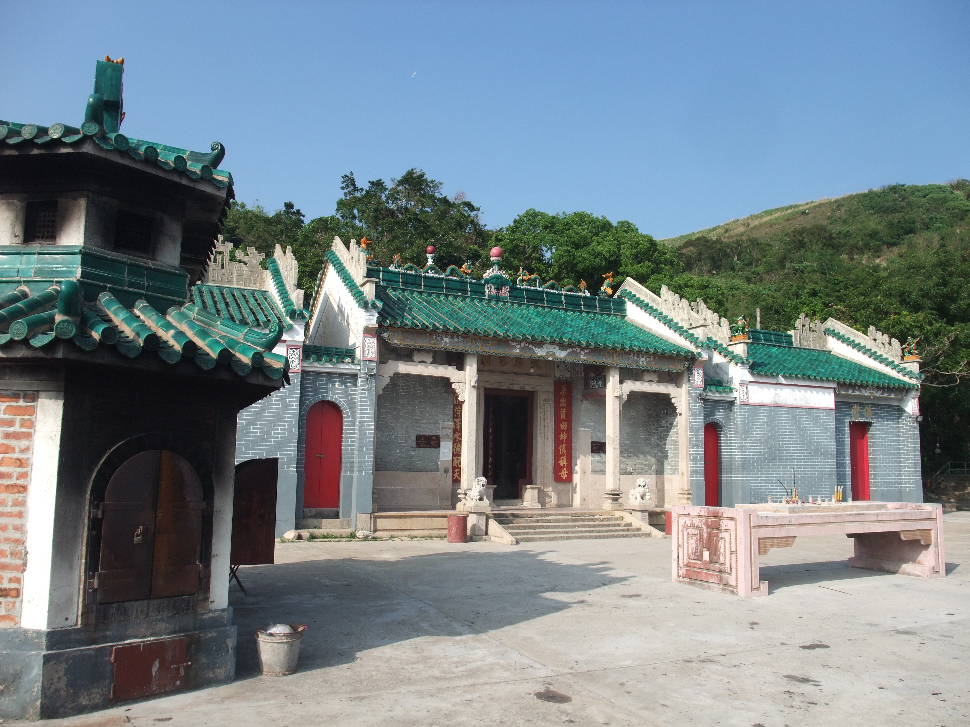 Photo of Joss House Bay Tin Hau Temple